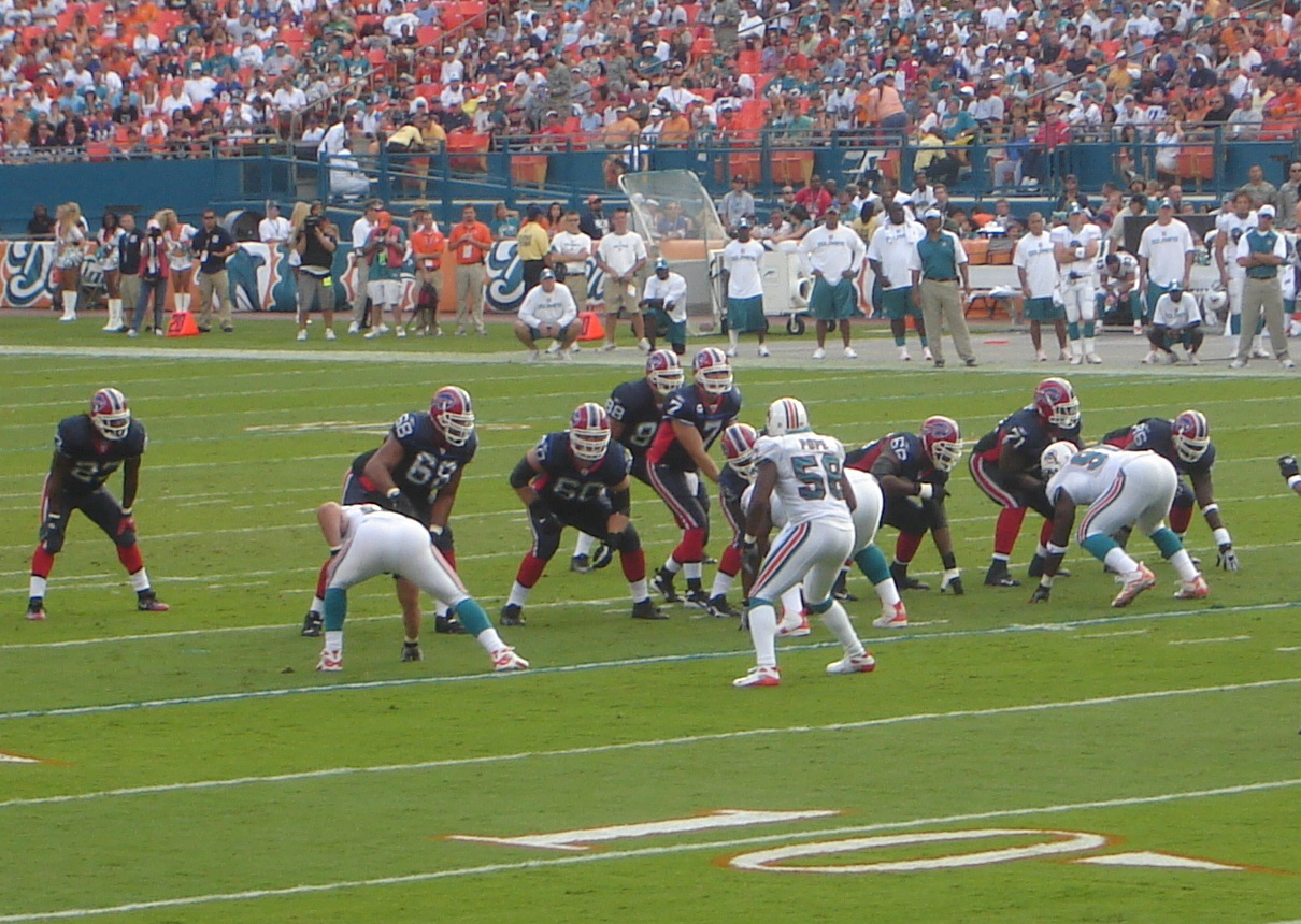 Dolphins vs. Bills 11/11/07